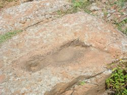 澎湖縣望安島仙跡岩。